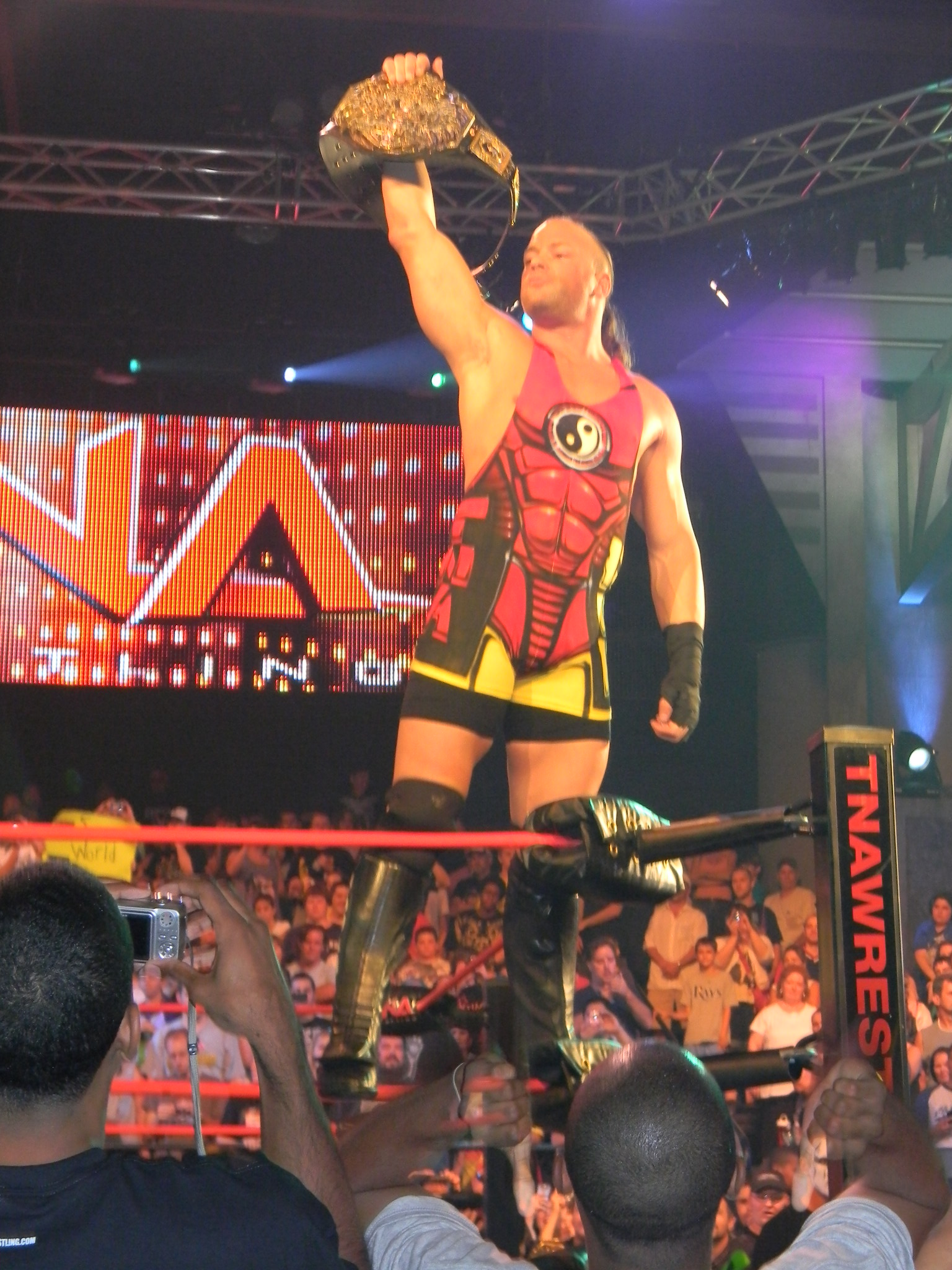 Rob Van Dam poses before his TNA World Title defense against Sting at Slammiversary 8.